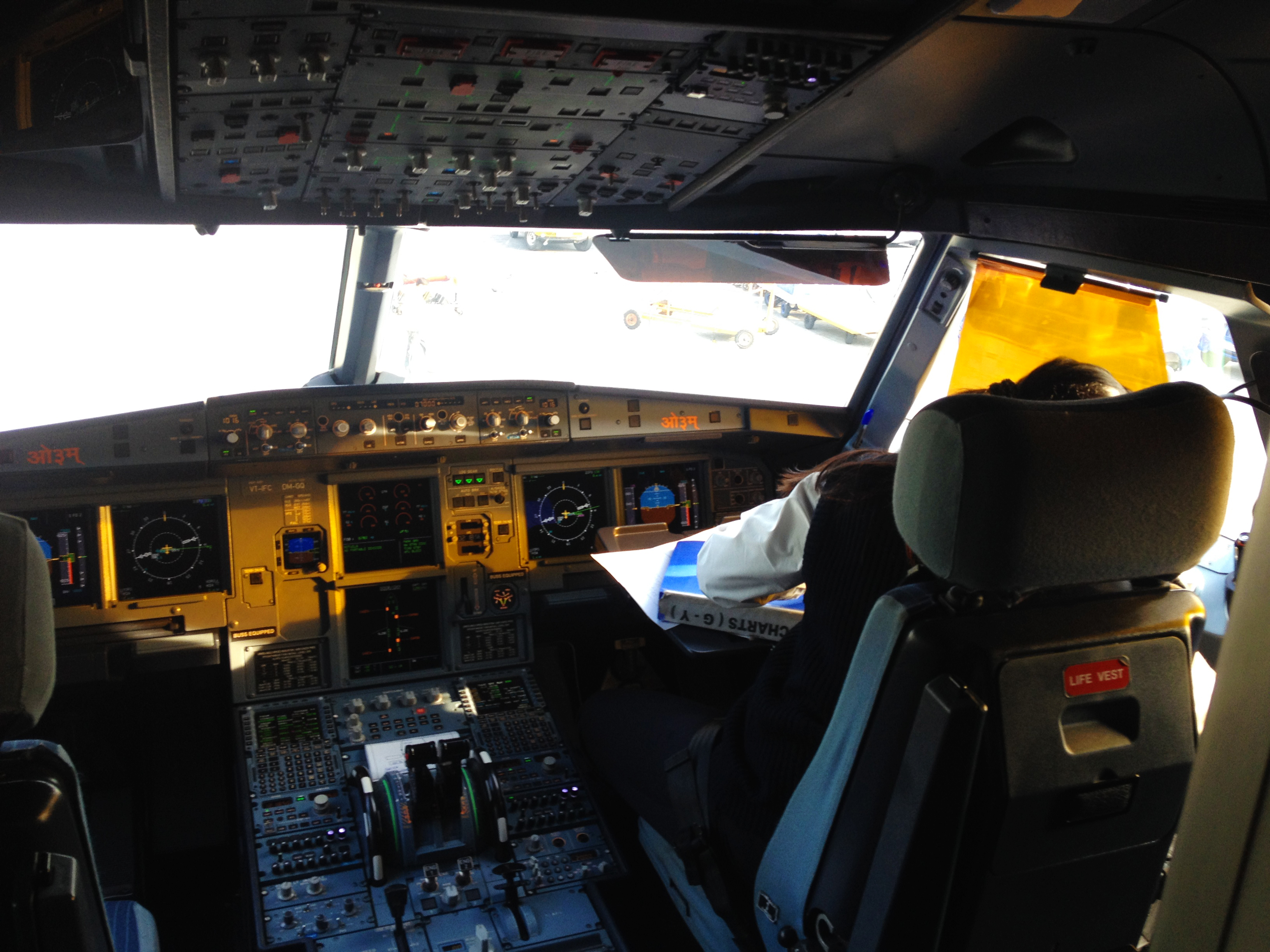 IndiGo A320 flight cockpit, shot in Rajiv Gandhi International airport, Hyderabad. Seen in the picture flight first officer Purva Sharma doing paperworks before the flight departs to Biju Patnaik Airport, Bhubaneswar.